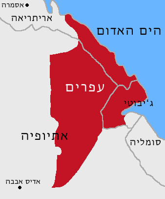 afar people location